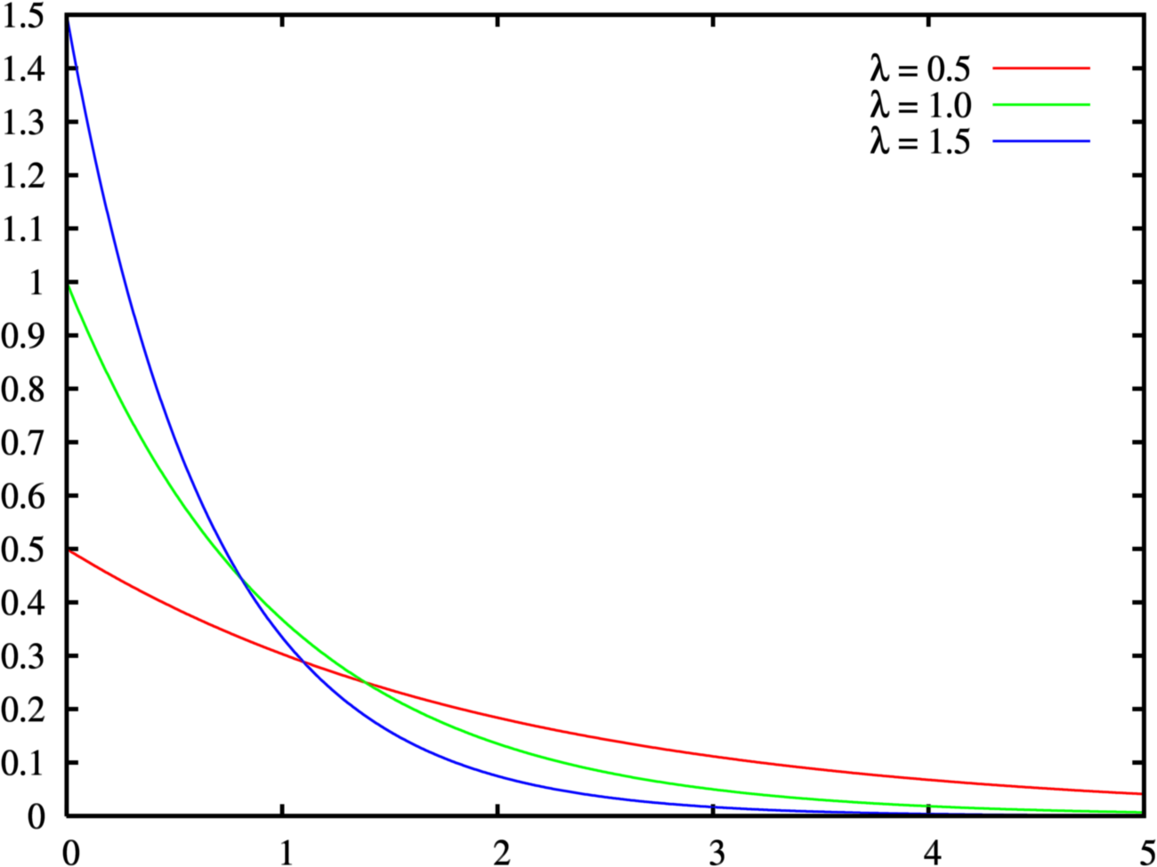 Probability density function for the exponential distribution